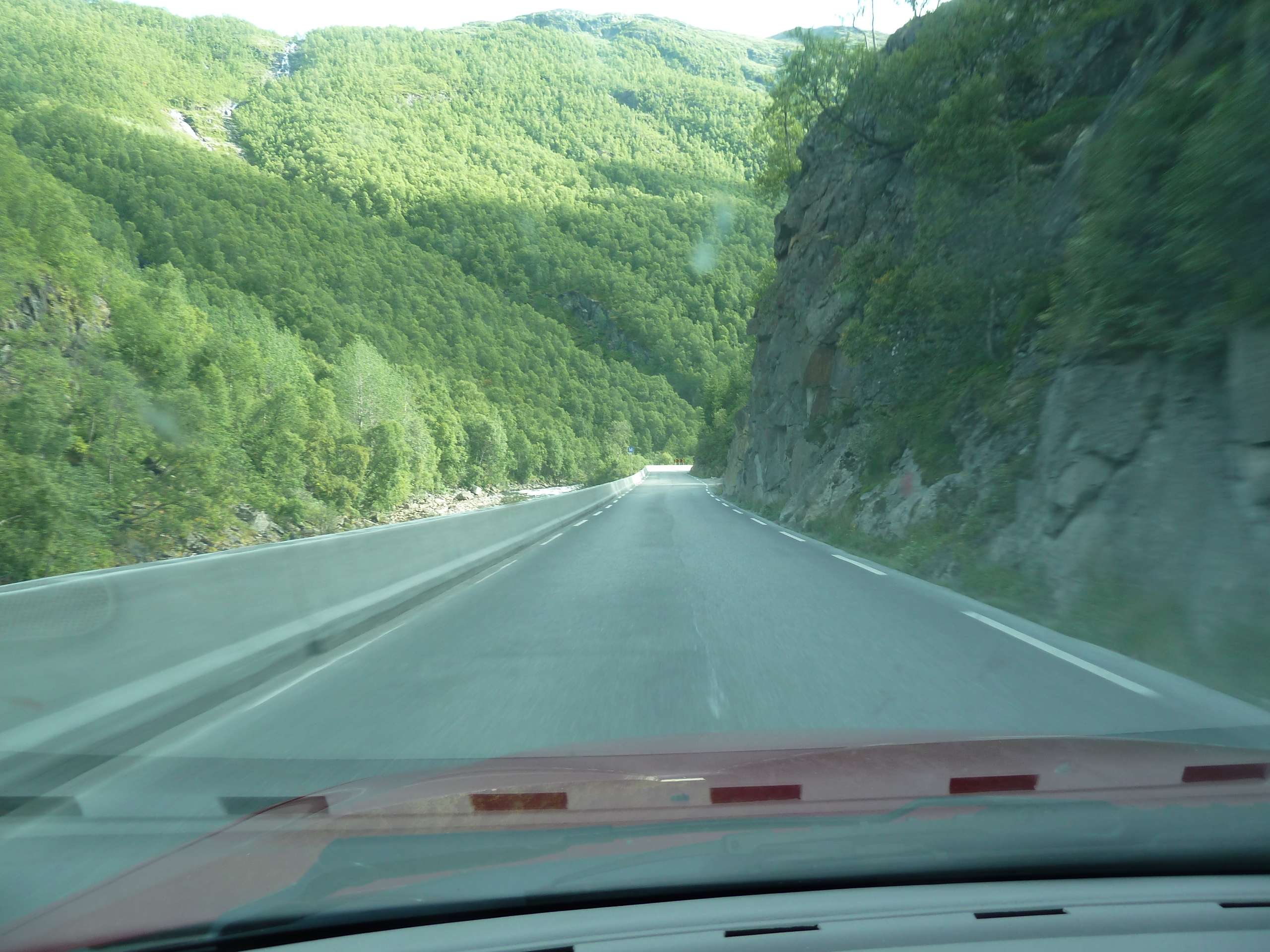 Road E16 between Borlaug-Filefjell in Sogn&Fjordane province in Norway